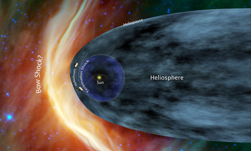 Voyager 1 and Voyager 2 near the Heliopause